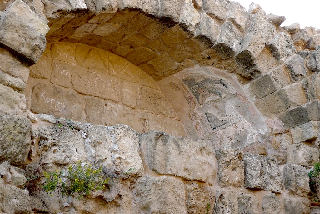 Mosaic of Euroas in the roman thermae of Salamis, Cyprus.